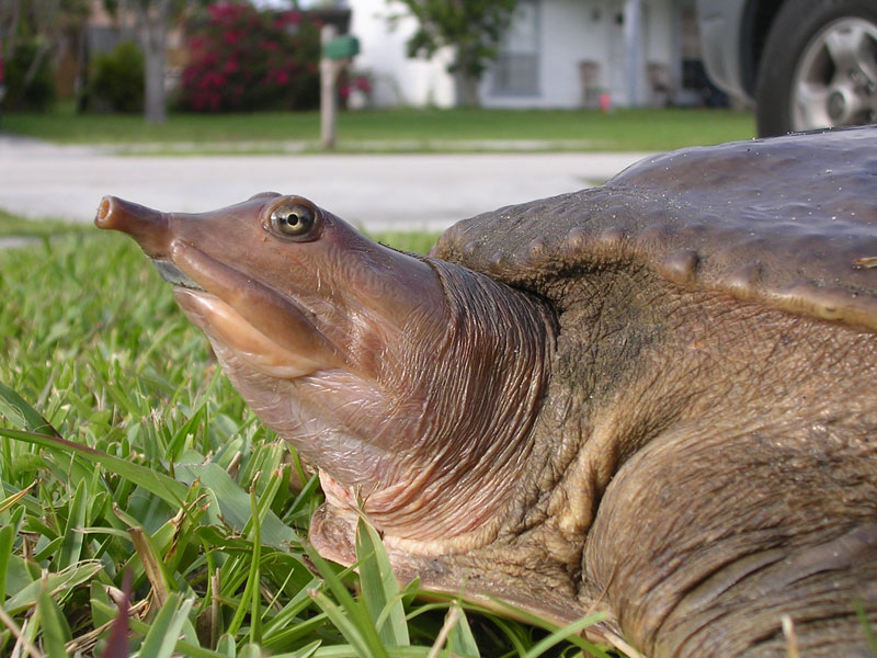 An Eastern Spiny Softshell Turtle (Trionyx spiniferus)